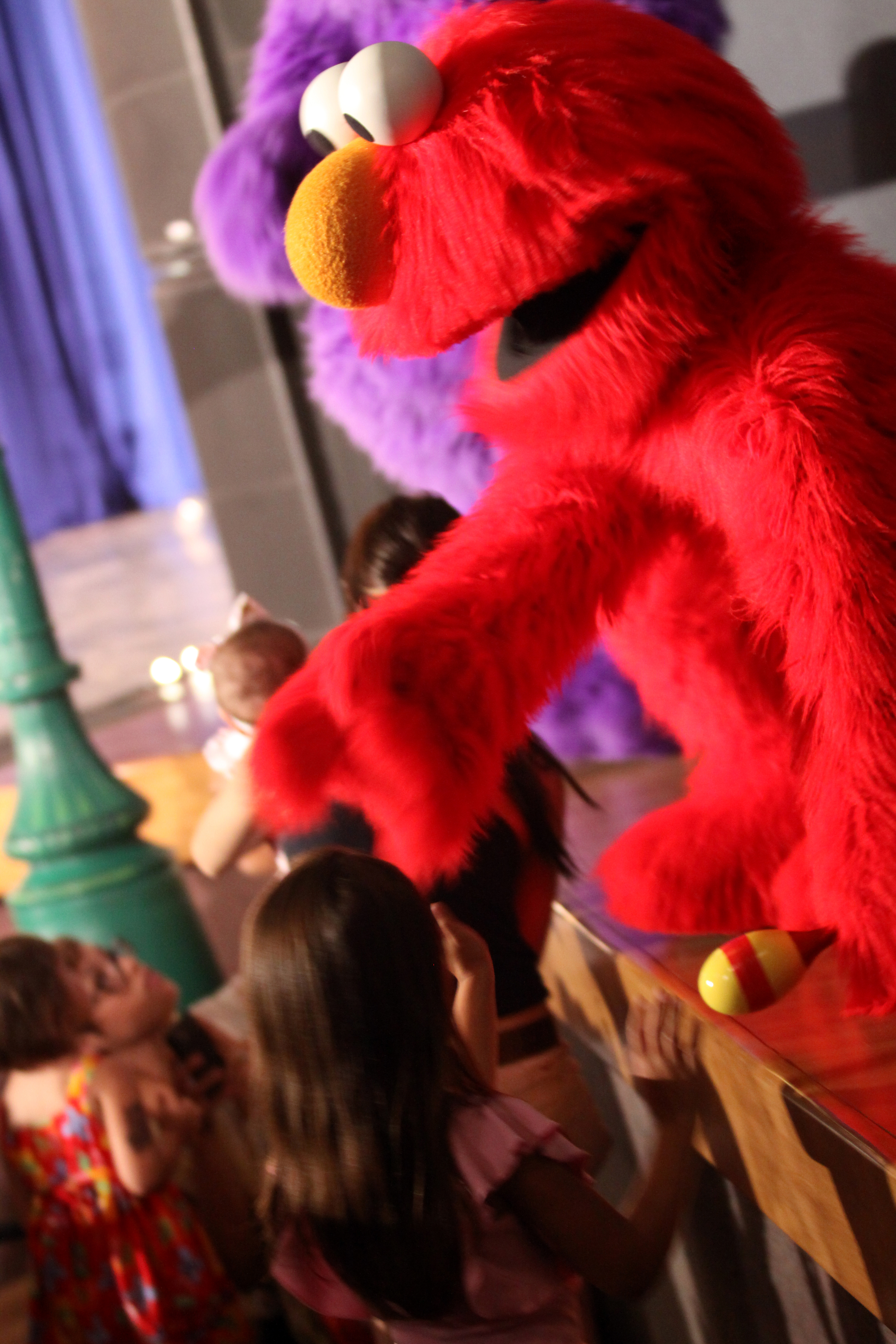 Elmo reaches down to shake hands and hug the children from on stage during the Sesame Street/USO Experience for Military Families show held at the Bulldog Box Office, Marine Corps Base Camp Pendleton, Aug. 14. This years show focuses on change and making new friends.